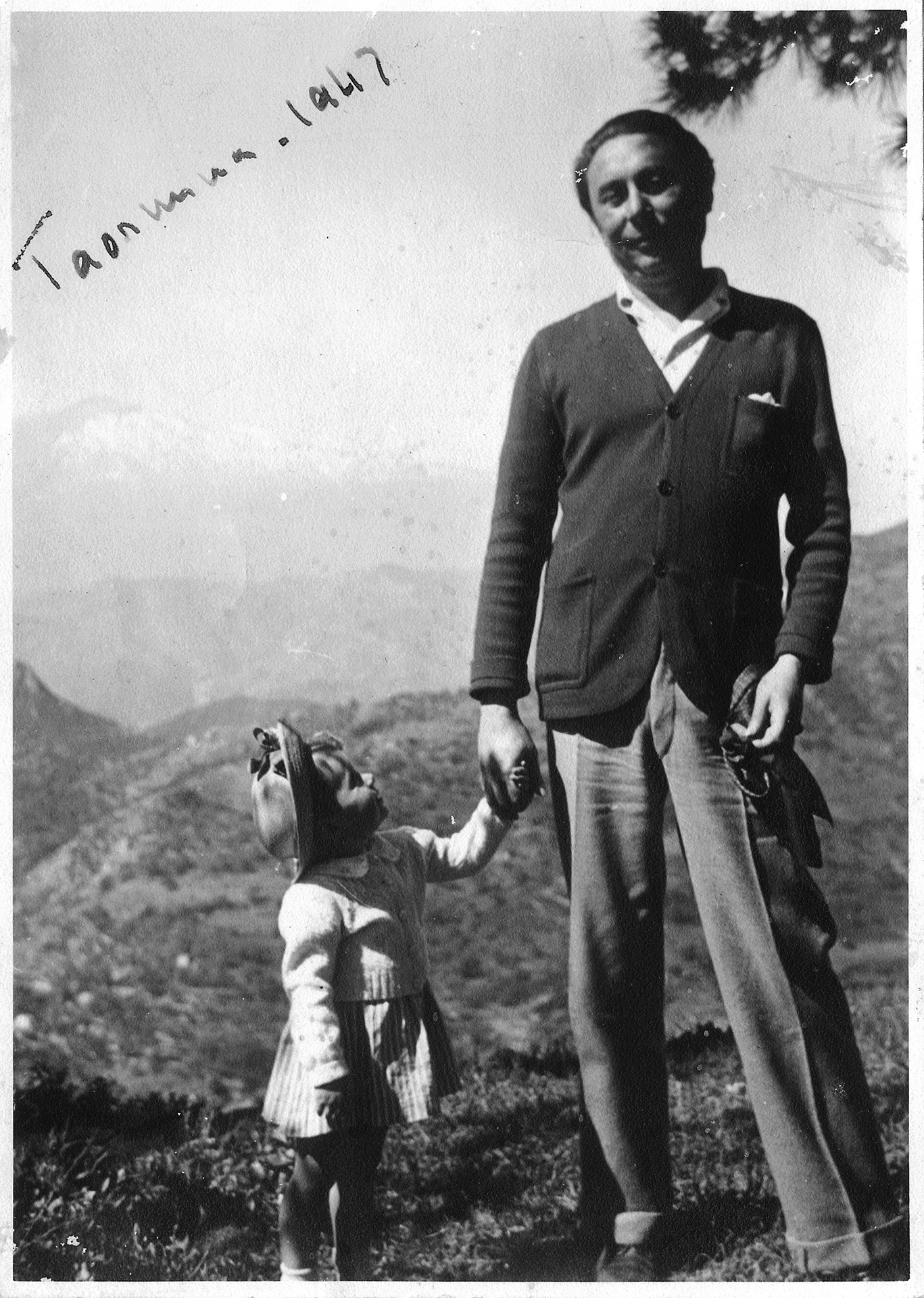 Enrico Galassi Taormina 1947